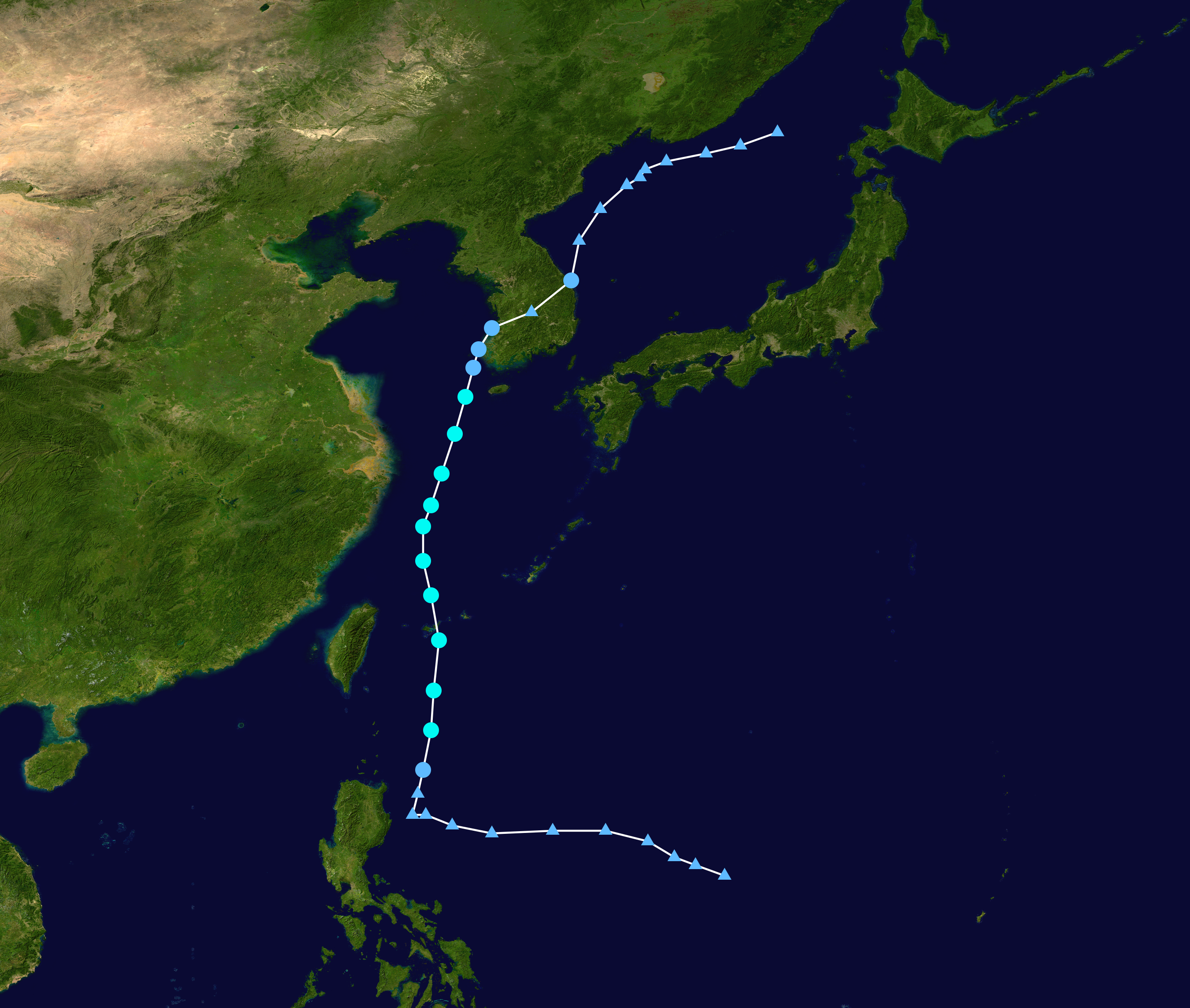 Track map of Tropical Storm Danas of the 2019 Pacific typhoon season. The points show the location of the storm at 6-hour intervals. The colour represents the storm's maximum sustained wind speeds as classified in the Saffir–Simpson scale (see below), and the shape of the data points represent the nature of the storm, according to the legend below. Saffir–Simpson scale Tropical depression≤38 mph≤62 km/h Category 3111–129 mph178–208 km/h Tropical storm39–73 mph63–118 km/h Category 4130–156 mph209–251 km/h Category 174–95 mph119–153 km/h Category 5≥157 mph≥252 km/h Category 296–110 mph154–177 km/h Unknown Storm type Tropical cyclone Subtropical cyclone Extratropical cyclone / Remnant low / Tropical disturbance / Monsoon depression